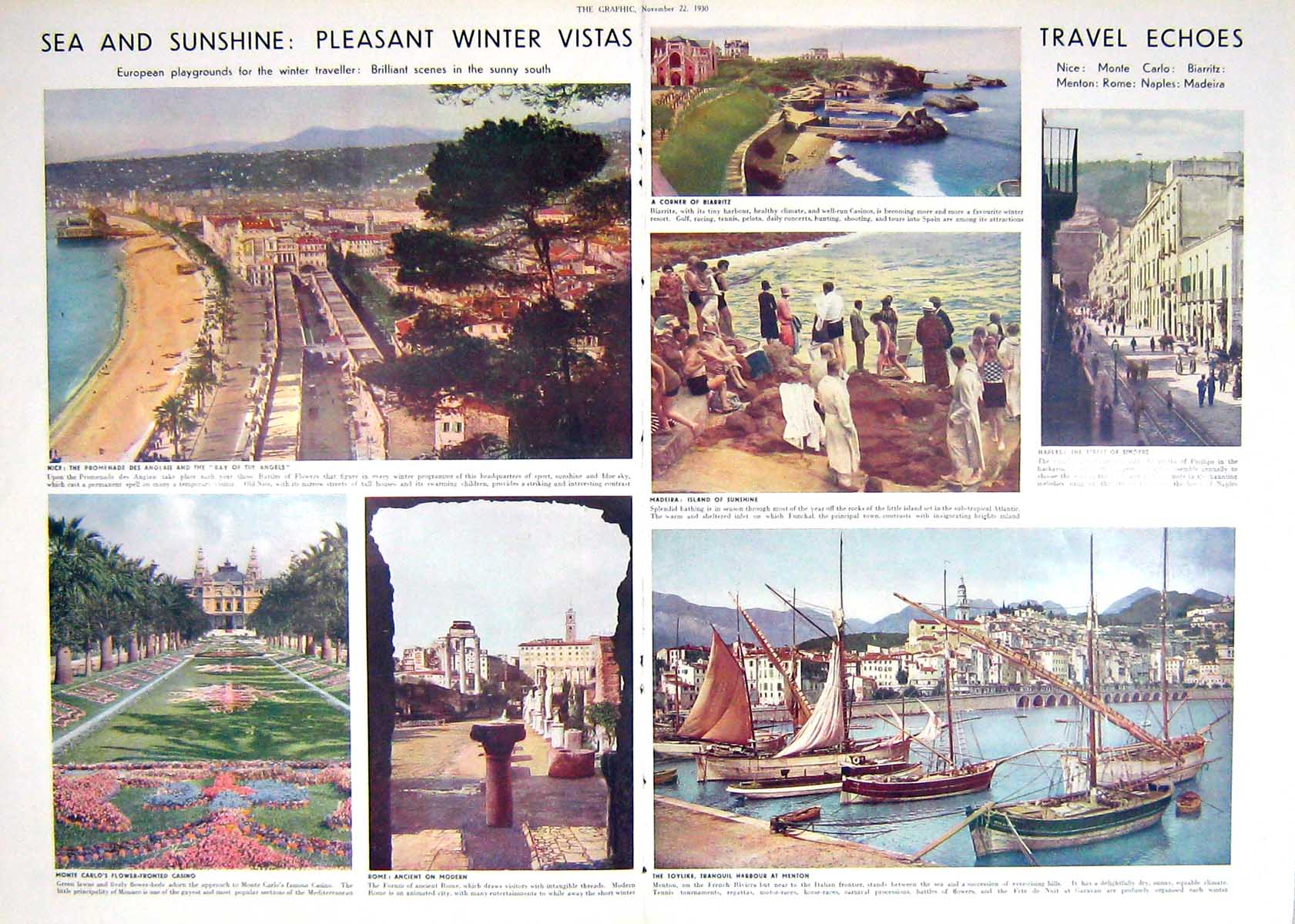 The Graphic 1930, p. 356